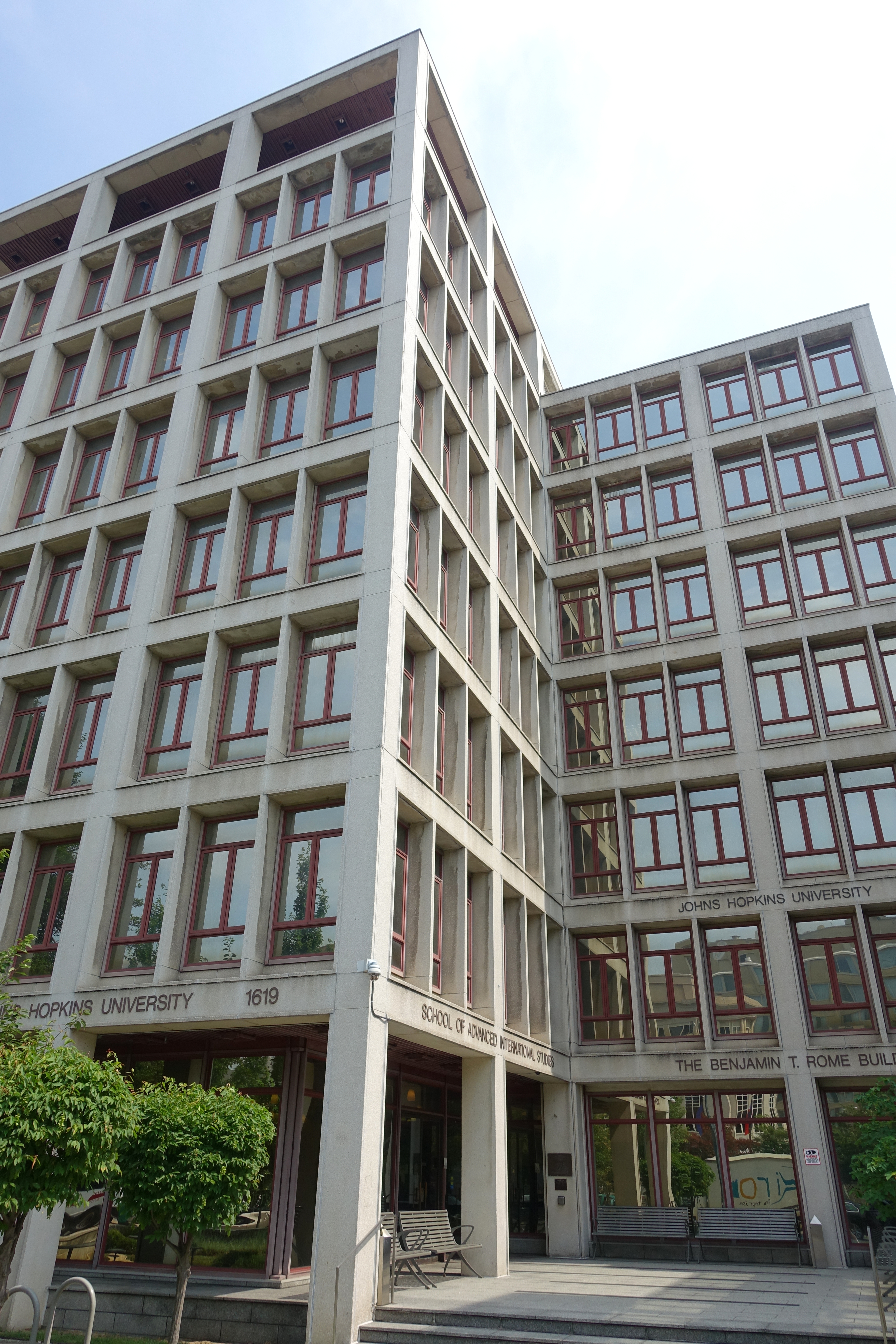 Benjamin T. Rome Building, Paul H. Nitze School of Advanced International Studies - Washington, DC, USA.